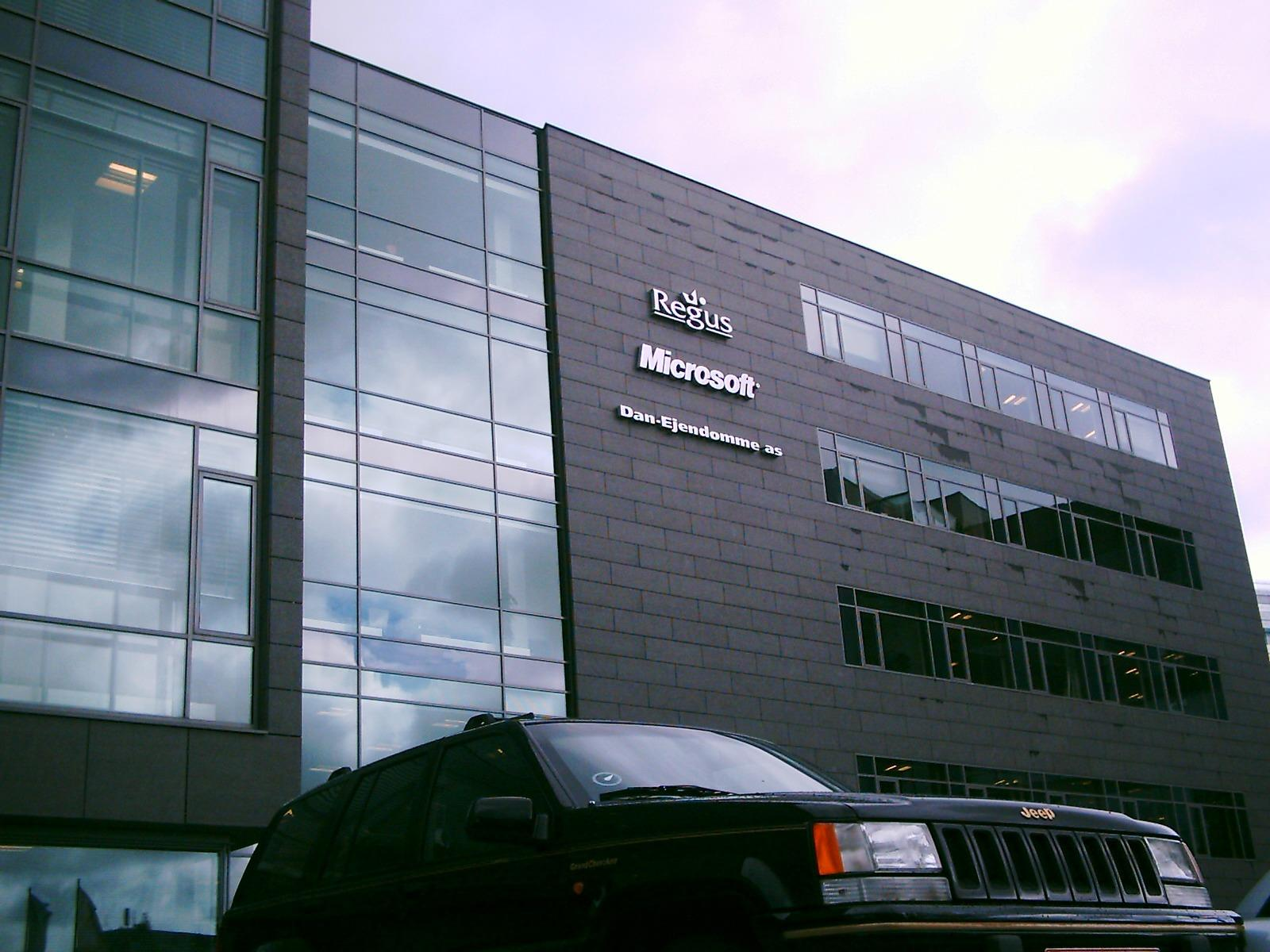 Headquarters of Microsoft Denmark